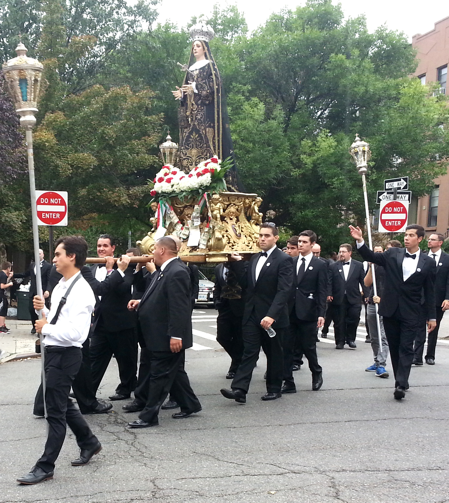 67th annual Feast of Addolorata procession in the Carroll Gardens neighborhood of Brooklyn. On Good Friday and on the second Sunday of September the congregation of Maria SS. Addolorata organize a procession with an Our Lady of Sorrows statue. The tradition started with Italian immigrants from Mola di Bari celebrating the Feast of their hometown patroness, Our Lady of Sorrows, in the 1940s.